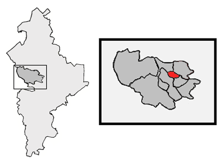 Municipality of San Nicolás de los Garza, Nuevo León. Made by Vince on September 4th, 2005.